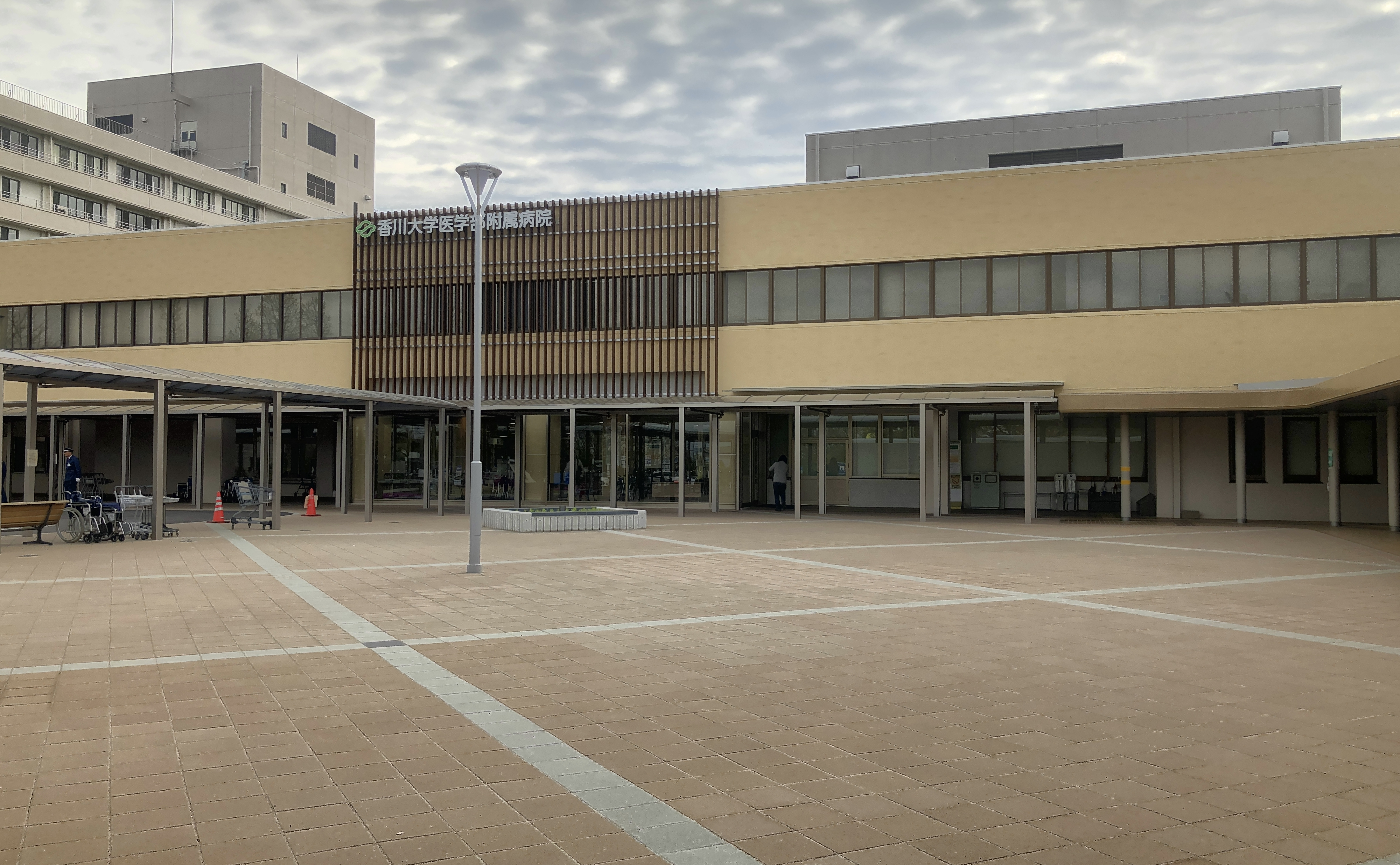 Kagawa University Hospital (Front entrance, After redevelopment). Taken at Kagawa University Hospital.